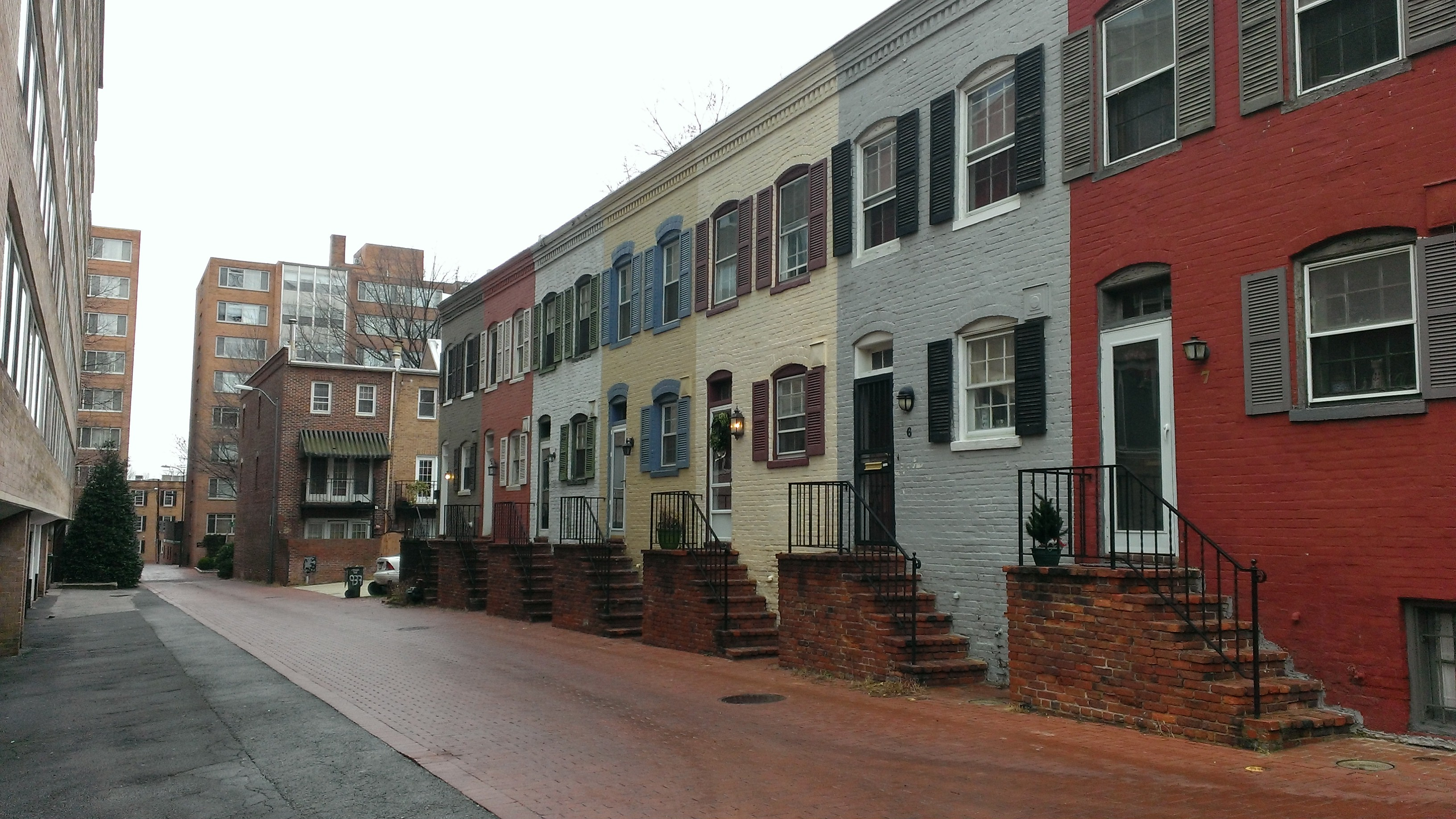 This is a photograph depicting several brick row housing residences located within Snows Court, Washington DC within the Foggy Bottom area.